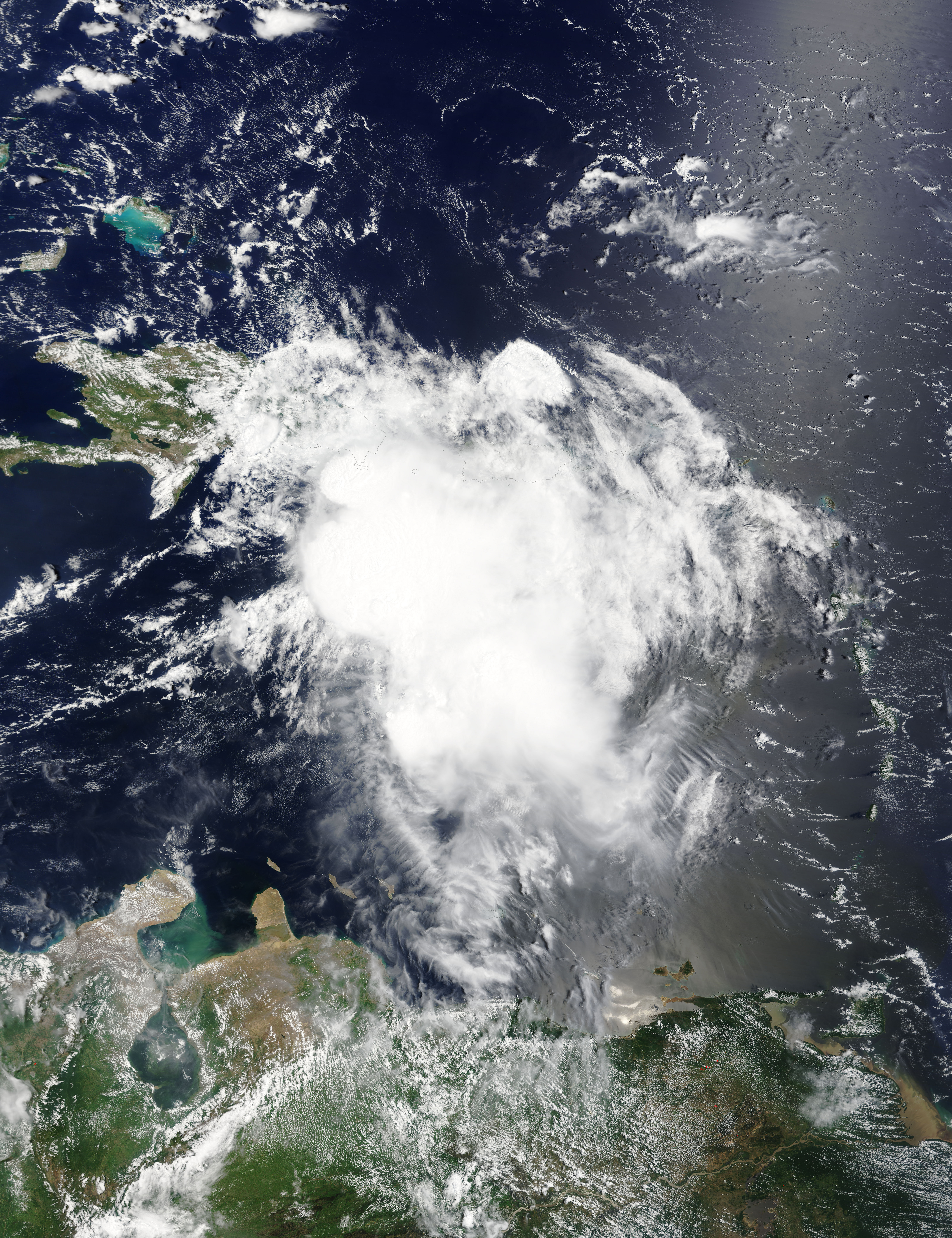 Tropical Storm Erika (05L) approaching Hispaniola